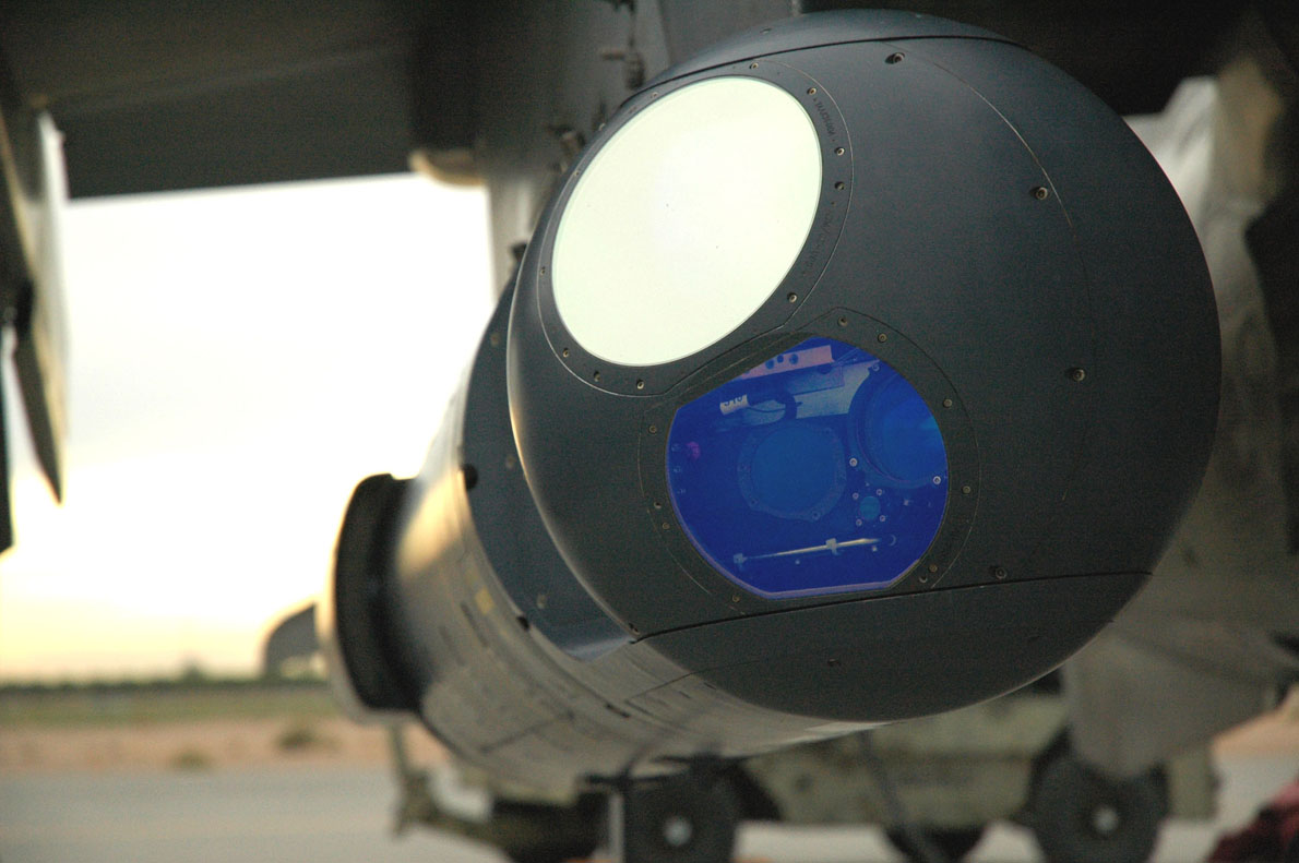 A LITENING pod -- self-contained, multi-sensor laser target-designating and navigation system -- hangs from under the wing of a Marine Attack Squadron 211 AV-8B Harrier at the South Combat Arms Loading Area Dec. 11. The Agile Lion demonstration integrated hardware already used by the Marine Corps, such as the enhanced position location reporting system, or EPLRS narrow-band radio, and aircraft-borne LITENING pods with gear from NGC and related corporations which was necessary to establish the battlefield network and connect all the players of the demonstration's scenarios.